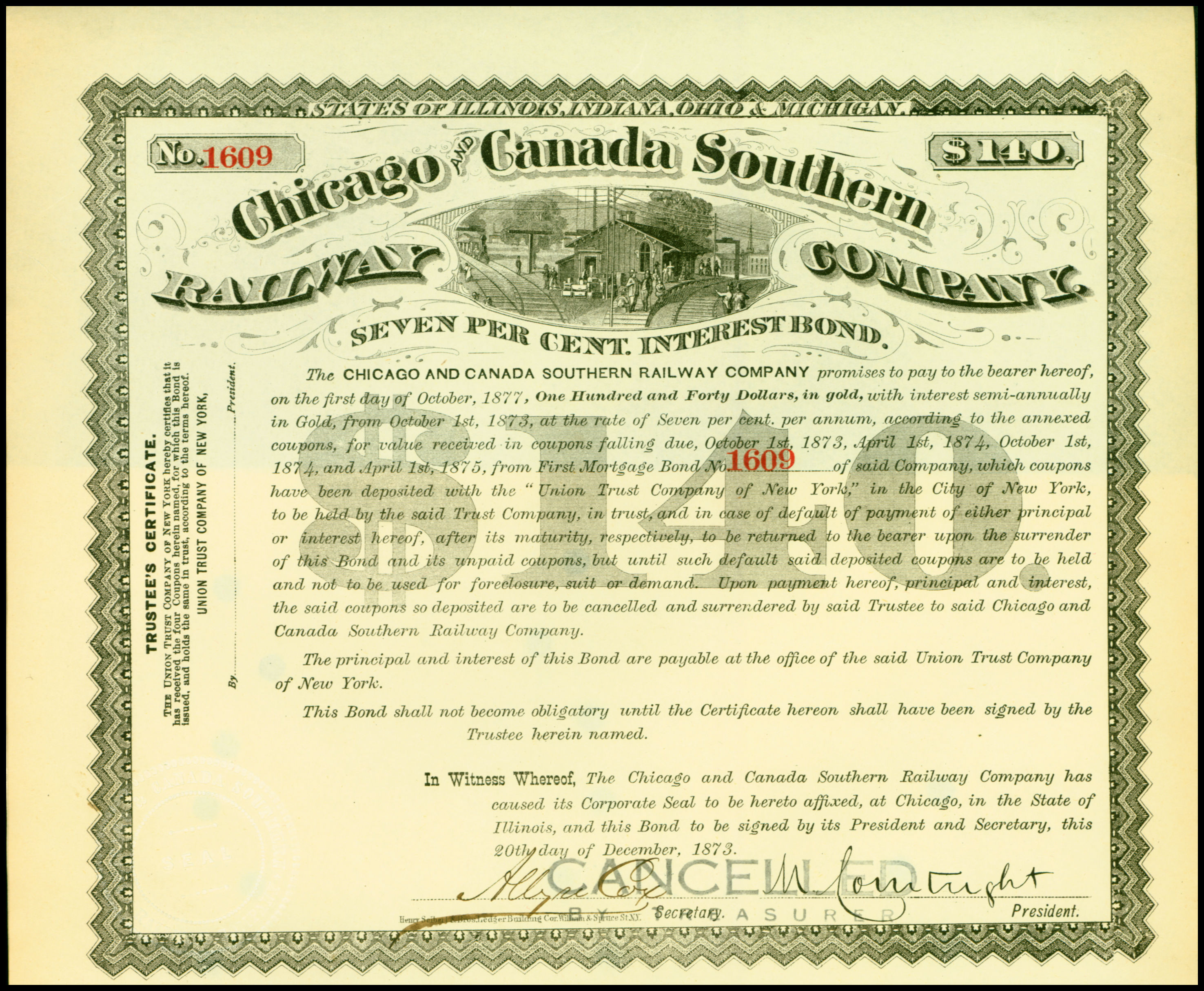 Bond of the Chicago and Canada Southern Railway Company, issued 20. December 1873